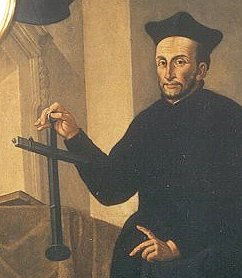 From